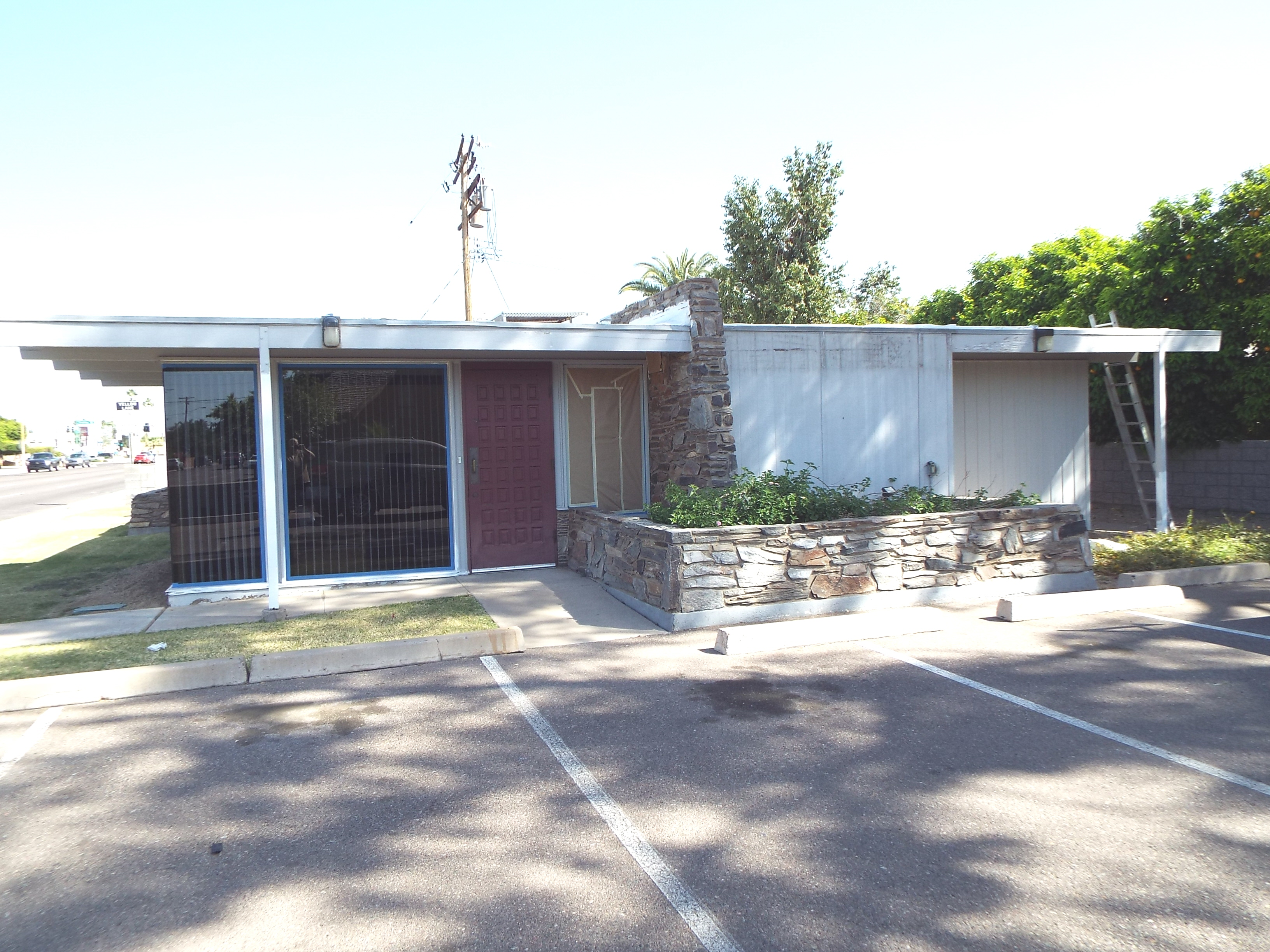 The Conn and Candlin CPA Office was built in 1962. It is located at 2701 N. 7th Ave. On January 9, 1991, the building was listed in the National Register of Historic Places, reference #90002099, as part of the Willo Historic District.